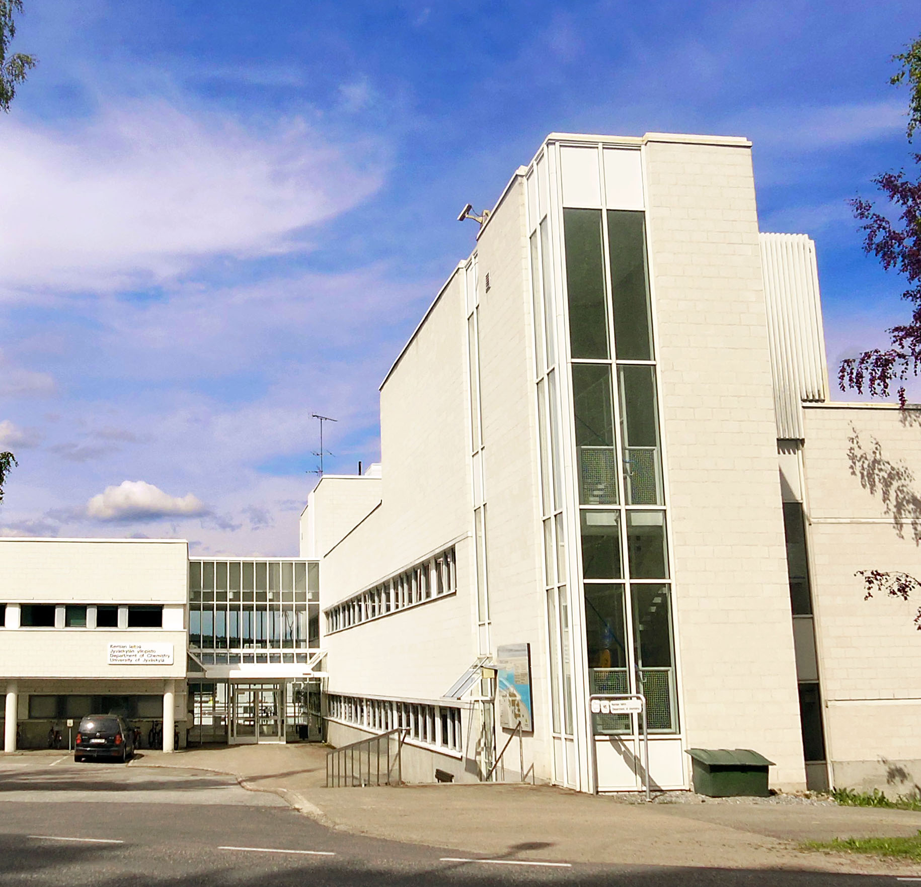 Department of Chemistry, University of Jyväskylä, Finland.